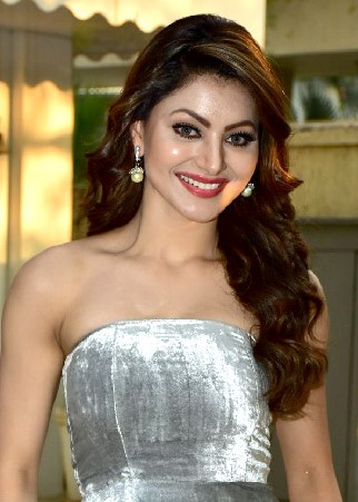 Urvashi Rautela at the promotion for Hate Story 4 in Mumbai.